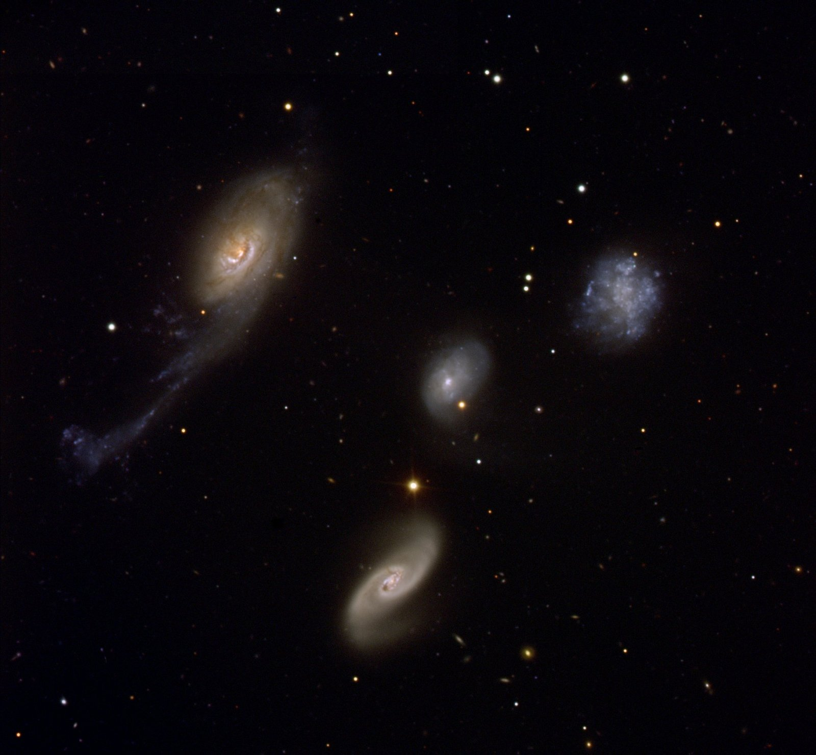 Roberts Quartet is a family of four very different galaxies, located at a distance of about 160 million light-years, close to the centre of the southern constellation of the Phoenix. Its members are NGC 87, NGC 88, NGC 89 and NGC 92, discovered by John Herschel in the 1830s. NGC 87 (upper right) is an irregular galaxy similar to the satellites of our Milky Way, the Magellanic Clouds. NGC 88 (centre) is a spiral galaxy with an external diffuse envelope, most probably composed of gas. NGC 89 (lower middle) is another spiral galaxy with two large spiral arms. The largest member of the system, NGC 92 (left), is a spiral Sa galaxy with an unusual appearance. One of its arms, about 100,000 light-years long, has been distorted by interactions and contains a large quantity of dust. ID: phot-34a-05 Press: 34/05 Object: NGC 87, NGC 88, NGC 89, NGC 92 Credit: ESO